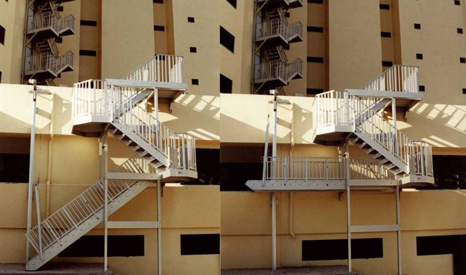 Counterbalanced stairs